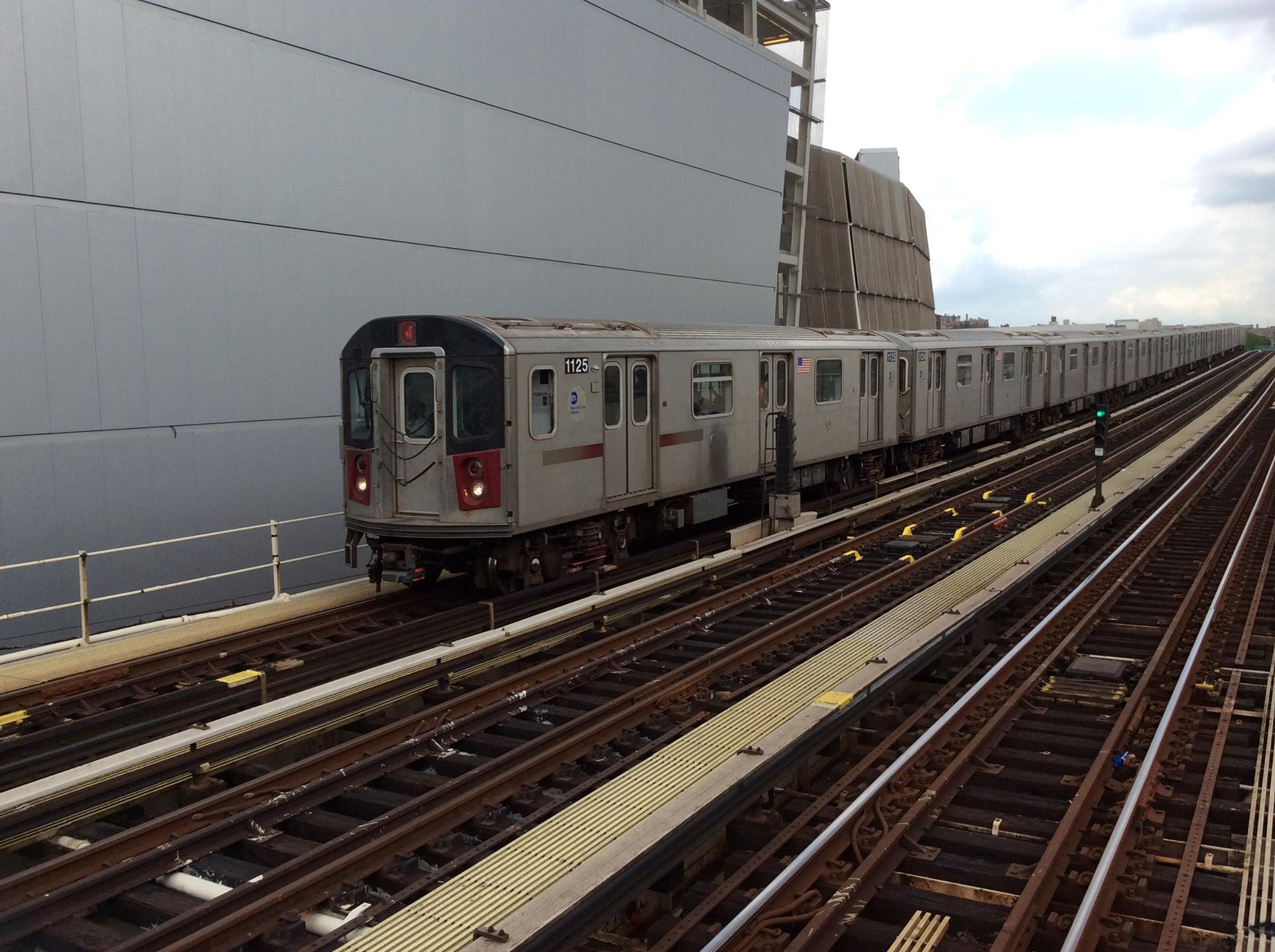 Southbound 4 train enters 161 St.